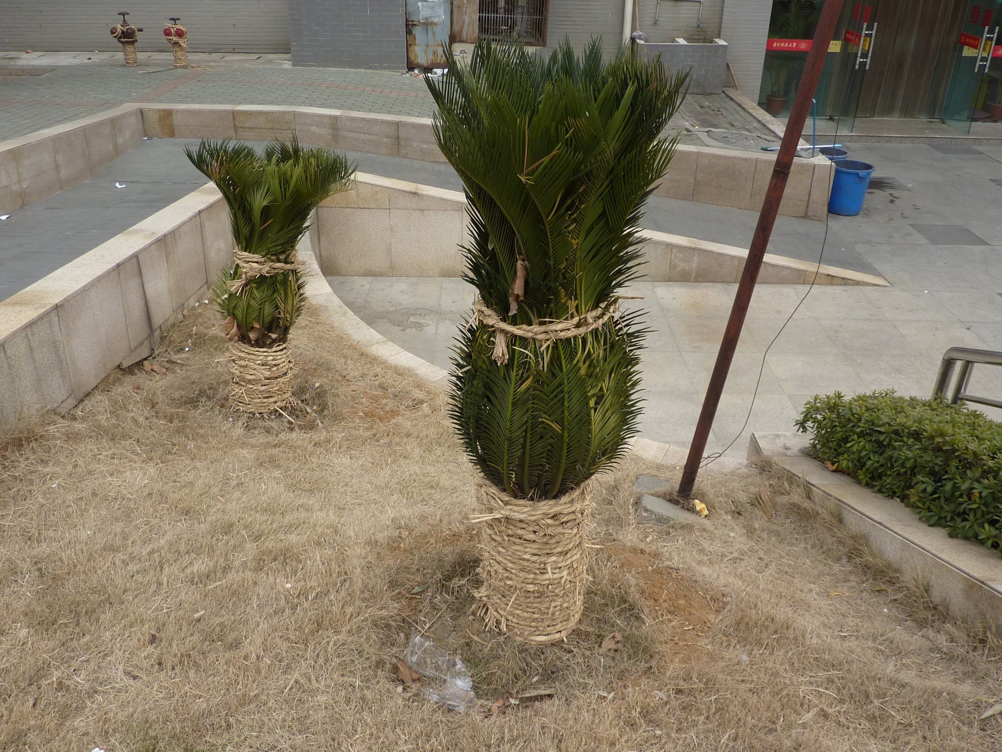 A cycad plant in Wuhan with its leaves tied for some protection in winter. During this time of year, they also can often be seen wrapped in burlap etc.